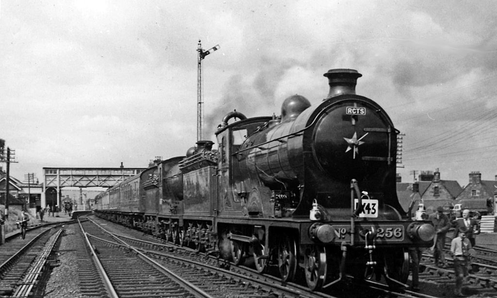 A Rail Tour train at St Boswells Station in 1961. View northward, towards Galashiels and Edinburgh on the ex-North British Waverley Line (Edinburgh - Carlisle) and towards Greenlaw and Reston on the branch to Reston (Greenlaw since 1948). This was an elaborate grand 'Borders Rail Tour' organised by the Railway Correspondence & Travel Society. We started from Leeds with Stanier 'Duchess' Pacific No. 46247 'City of Liverpool', which took us over the Settle & Carlisle Line to Carlisle. From there we took the Waverley Route to St Boswells, thence on the Reston line (truncated since the 1948 floods), to Greenlaw, back to St Boswells, then to Jedburgh and back to Roxburgh, where we reversed once again and continued to Tweedmouth. From there we came up the ECML to Newcastle with A1 Pacific 60143 'Sir Walter Scot', finally with A3 Pacific 60074 'Harvester' via Darlington, Northallerton and Harrogate back to Leeds - a journey of 12 hours. The two NB locomotives here, are D34 'Glen' 4-4-0 No. 256 (LNER 62469) 'Glen Douglas' and J37 0-6-0 No. 64624, which hauled the Special between Carlisle and Tweedmouth. The 'Glen' had been withdrawn from normal service in 8/59 but was restored to NBR livery and used for Special Workings until 12/62; it resided until 1992 at the Glasgow Transport Museum and is currently exhibited at the Scottish Railway Exhibition at Bo'ness. [It is a shame this was not a colour photograph, as No. 256 was splendid in NBR ochre]